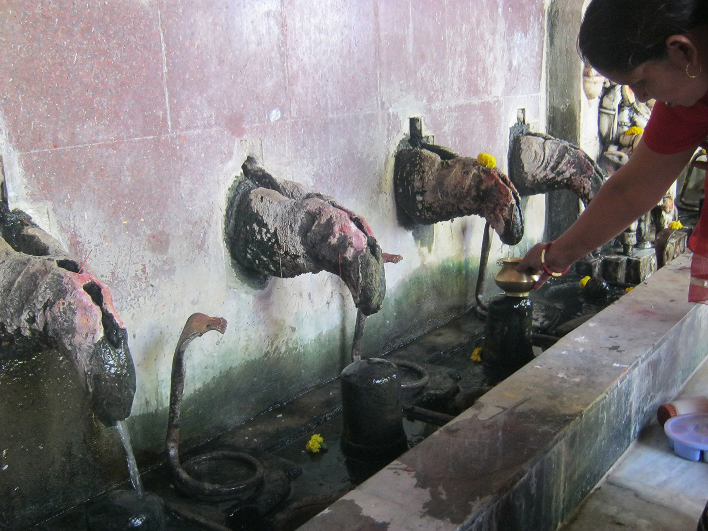 A devotee consecrating Shivlingas